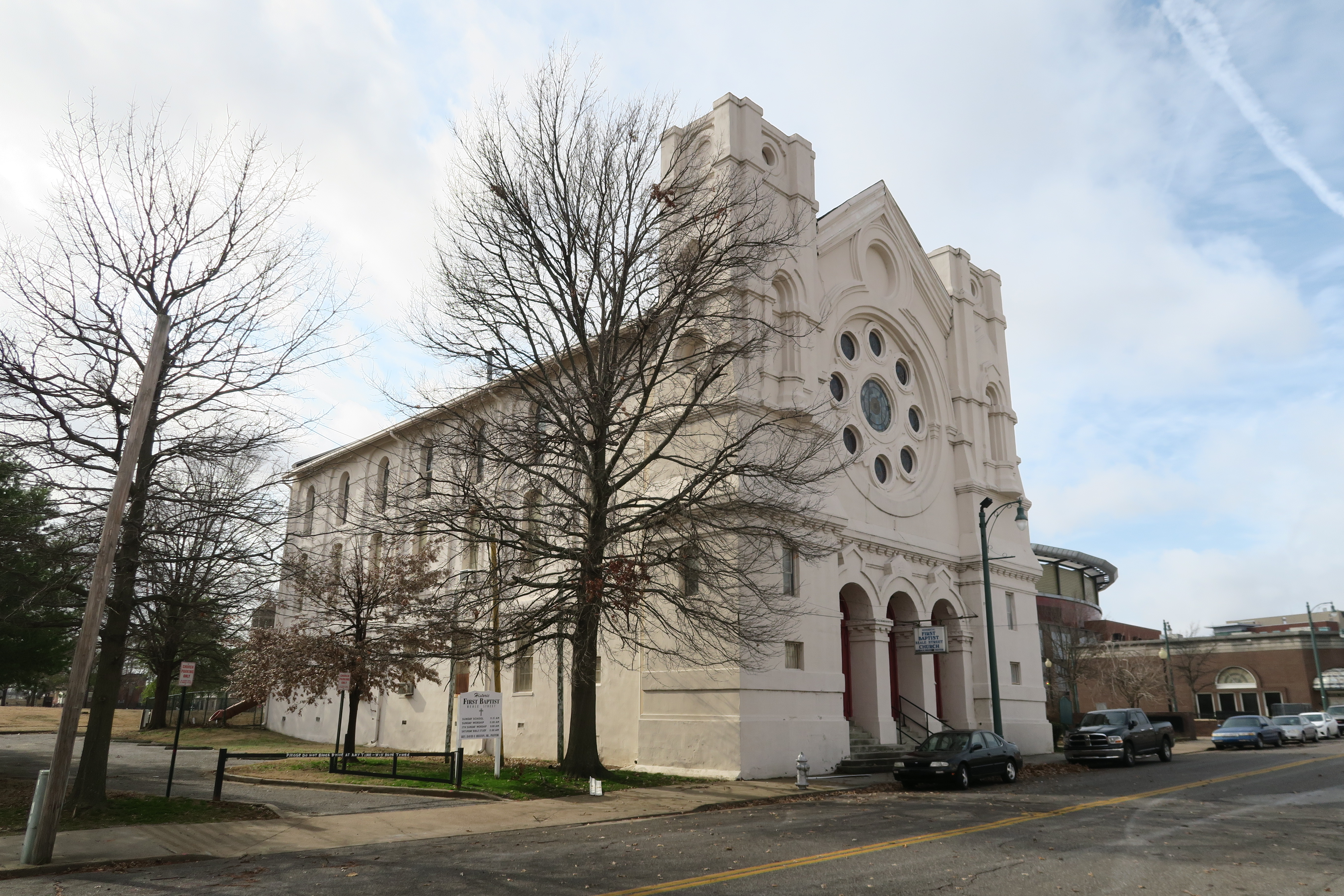 First Baptist Church, Beale St, Memphis Tennessee